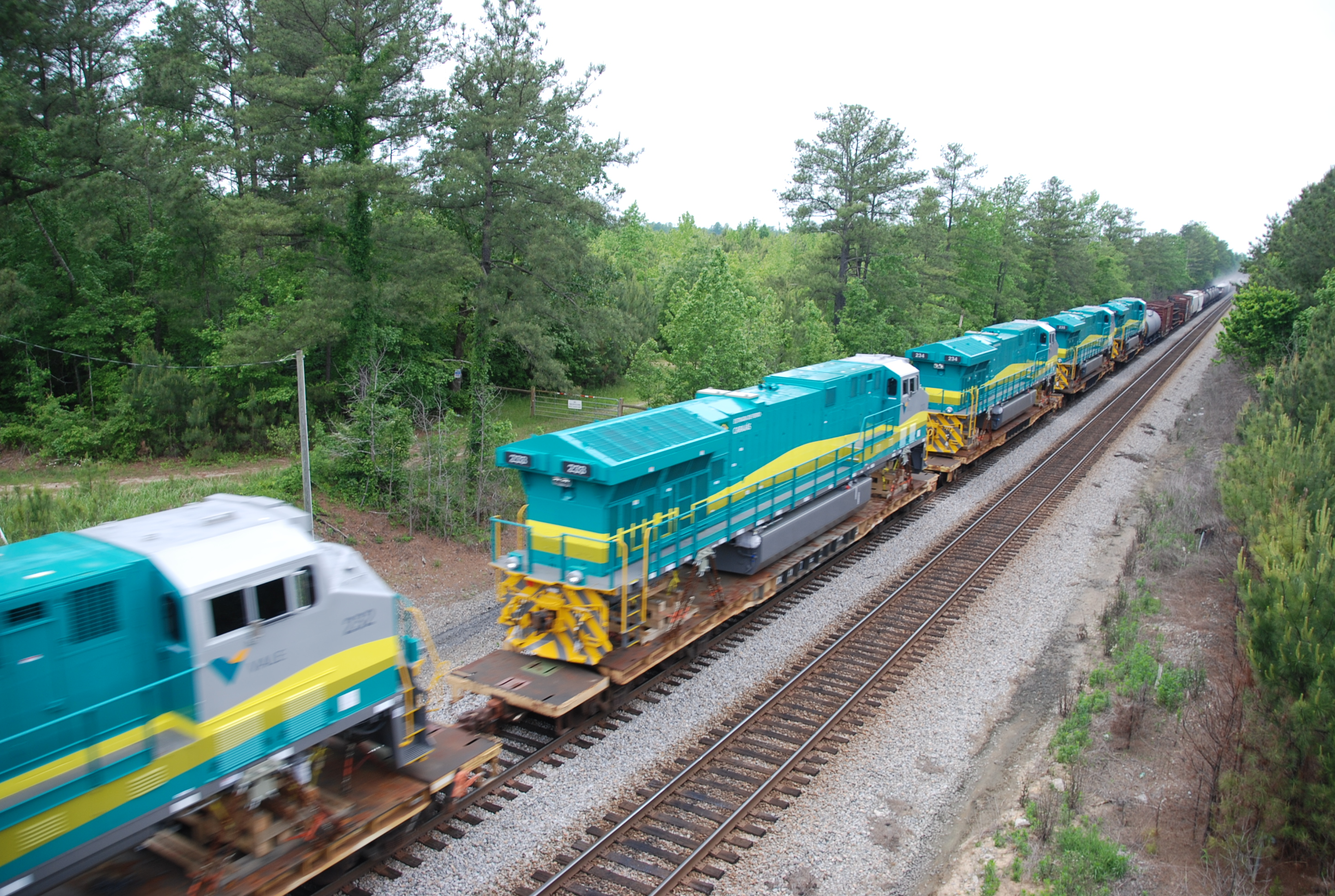 While traveling in southern Virginia heading toward North Carolina's Outer Banks on May 13, 2012, we ran parallel to a Norfolk Southern freight train hauling brand new General Electric locomotives. These railway engines were GE ES58ACi export versions built for the Vale Railroad system in Brazil. From markings on the engines, it appears they are destined for use in passenger service on the Carajás Railroad. The Carajás Railroad (EFC) passenger train links the states of Maranhão and Pará via 25 villages and towns. Safe and efficient, tickets for this service are up to 50% cheaper than road transportation, and it is the choice of 1,300 passengers per day. Six brand new engines were being transported on this fine spring day, with Vale engine numbers 231 through 236